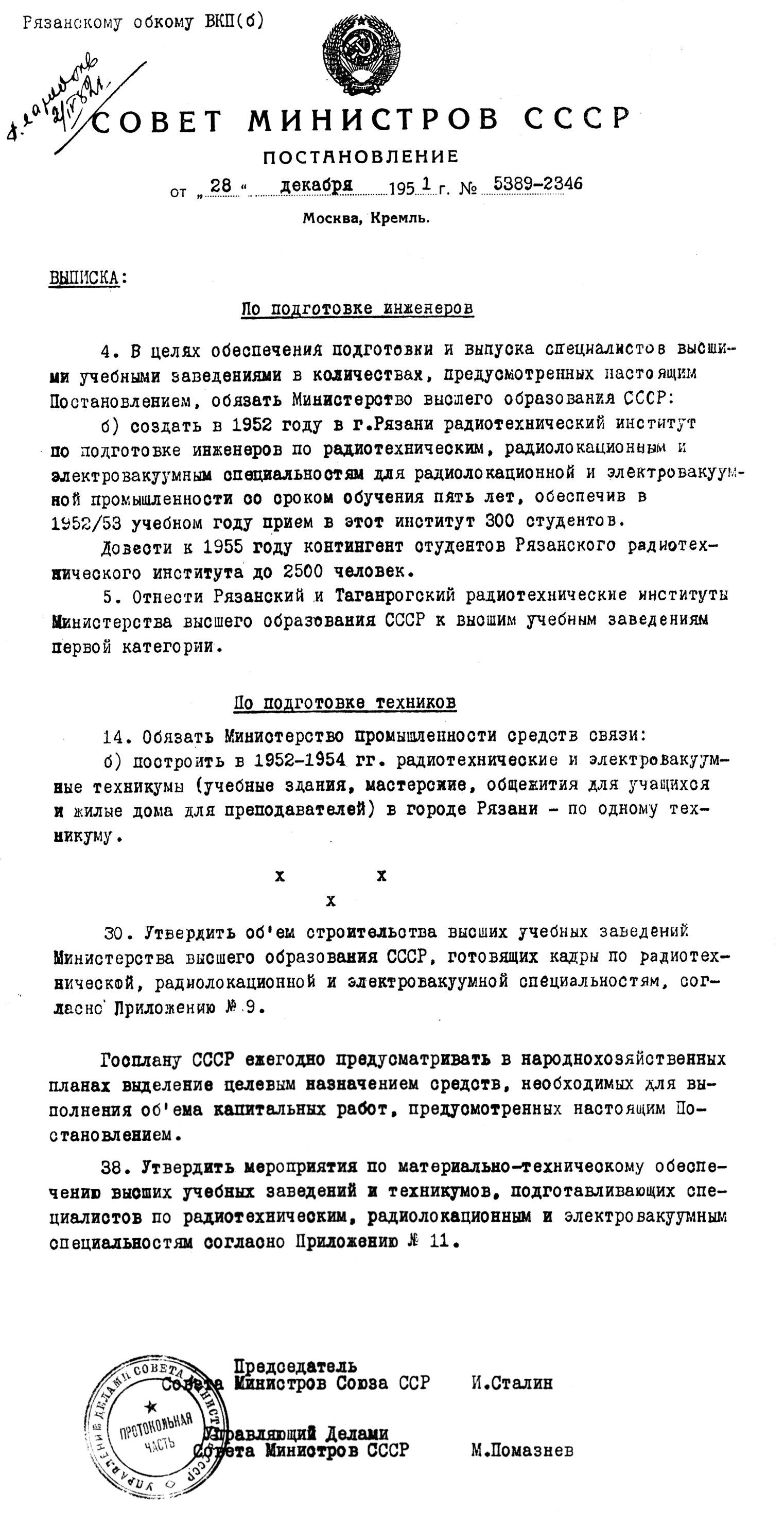 An excerpt from a Declaration of the Council of Ministers of the USSR dated December 28, 1951, number 5389-2346.